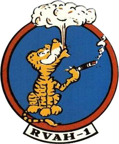 Insignia of the U.S. Navy Reconnaissance Heavy Attack Squadron 1 (RVAH-1) "Smokin' Tigers", in 1978.